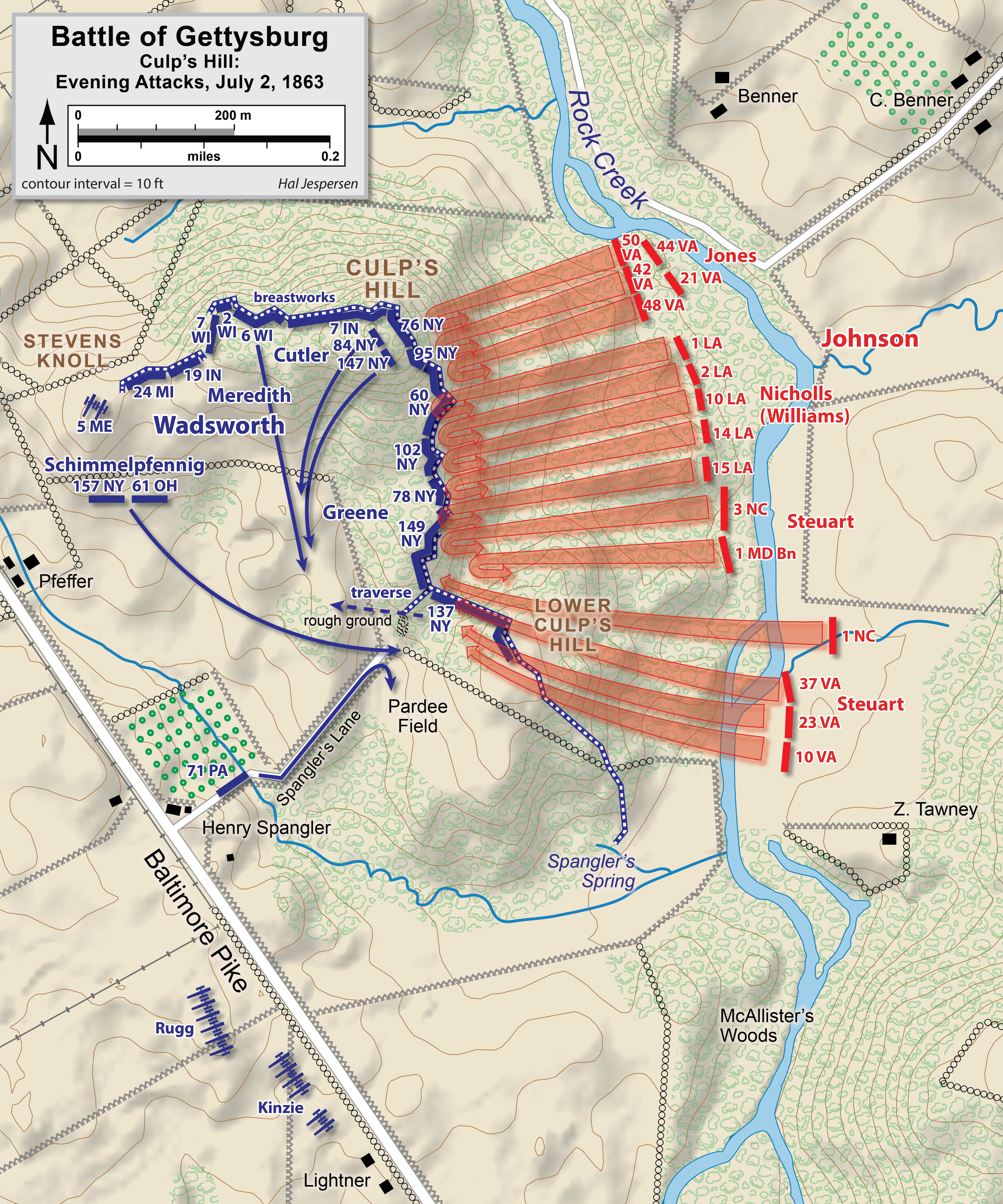 (Map of actions in the Battle of Gettysburg, second day, Culp's Hill, evening battle. Drawn by Hal Jespersen in Macromedia Freehand. Graphic source file is available at New version improves accuracy of unit positions and graphic style that matches others in the Gettysburg series. Drawn by Hal Jespersen in Adobe Illustrator CS5. )